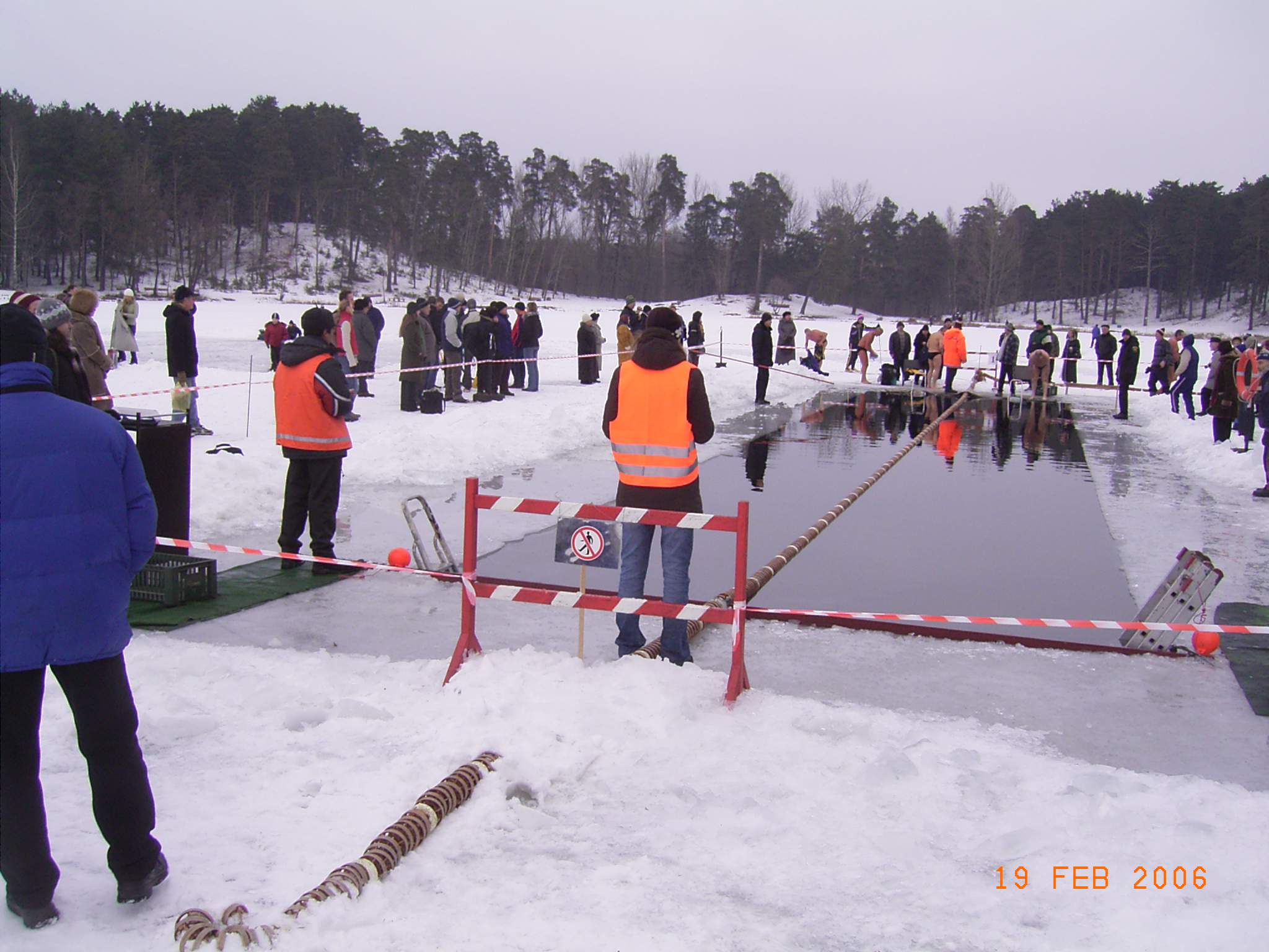 winter swimming championchip in Latvia